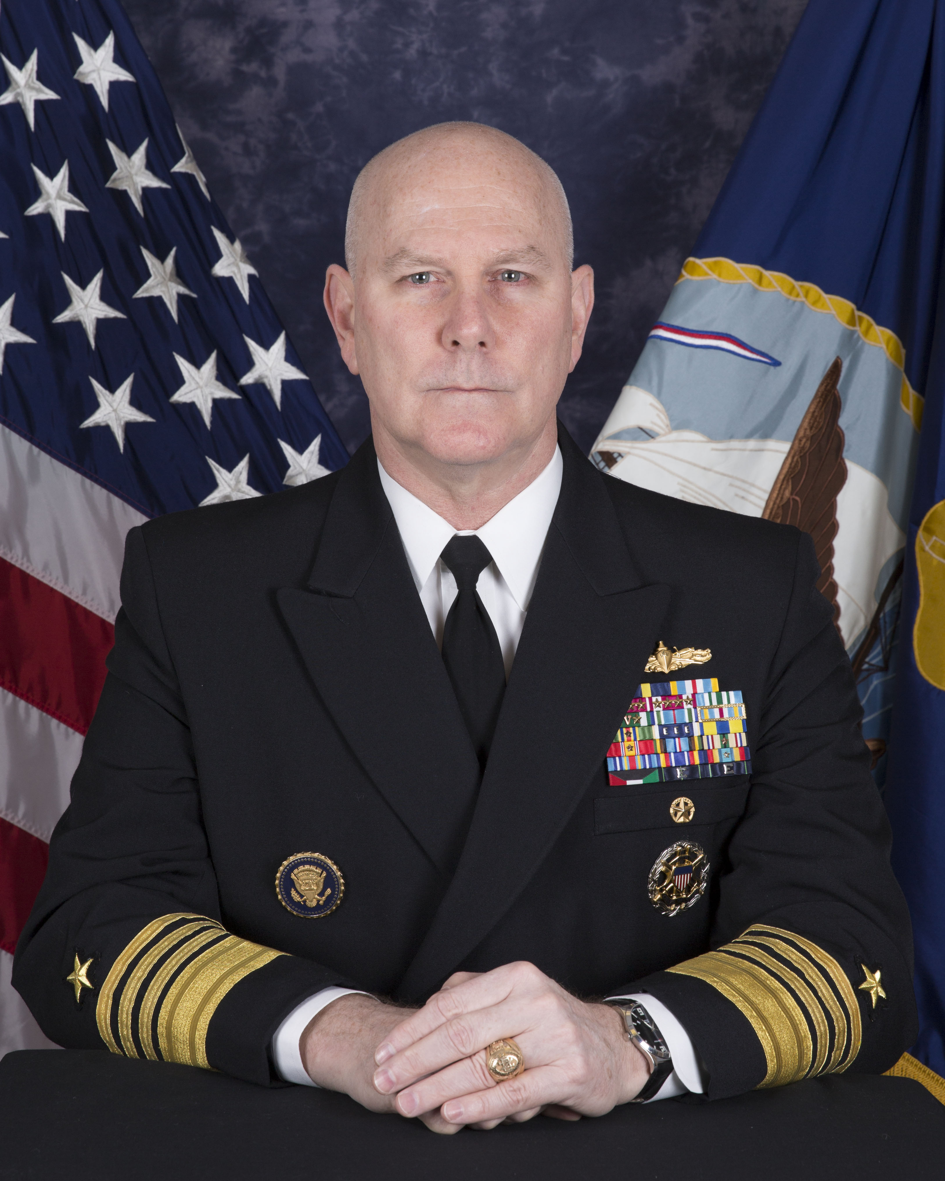 Admiral Christopher W. Grady, USNCommander, U.S. Fleet Forces Command andCommander, U.S. Naval Forces Northern Command